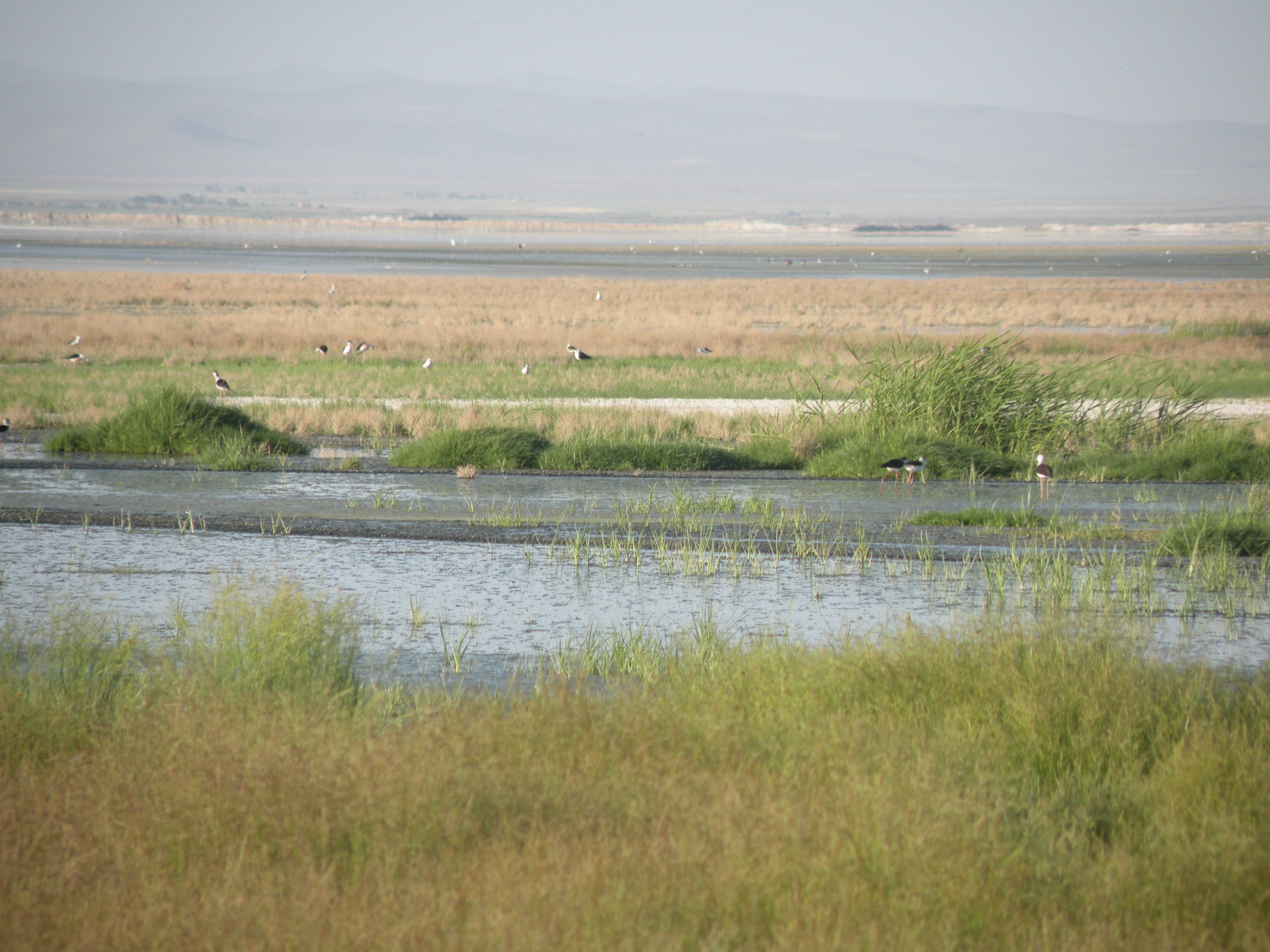 Meyghan Lake in Iran